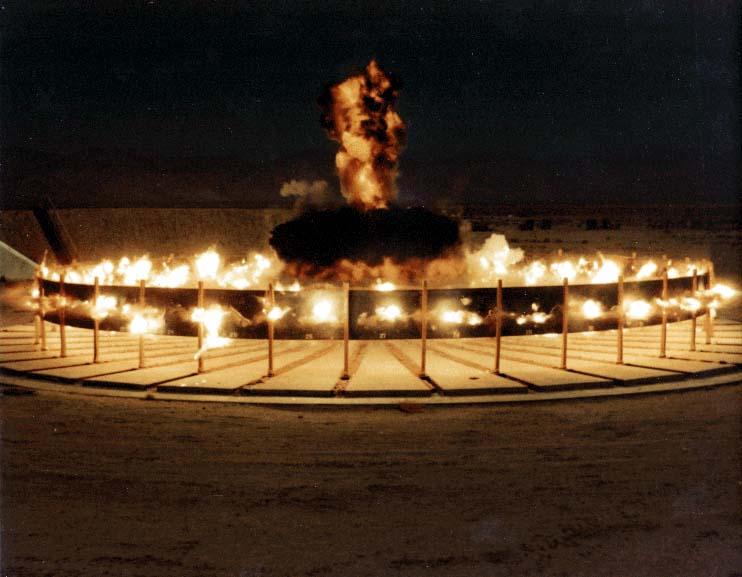 Public domain image from China Lake site CHINA LAKE HISTORICAL OVERVIEW Arena firing of continuous-rod warhead, 1972; extremely effective against aircraft, the continuous-rod warhead is a single bar of metal explosively expanded into a sort of flying buzzsaw; China Lake developed warheads for a variety of missiles, including Sidewinder and Sparrow.